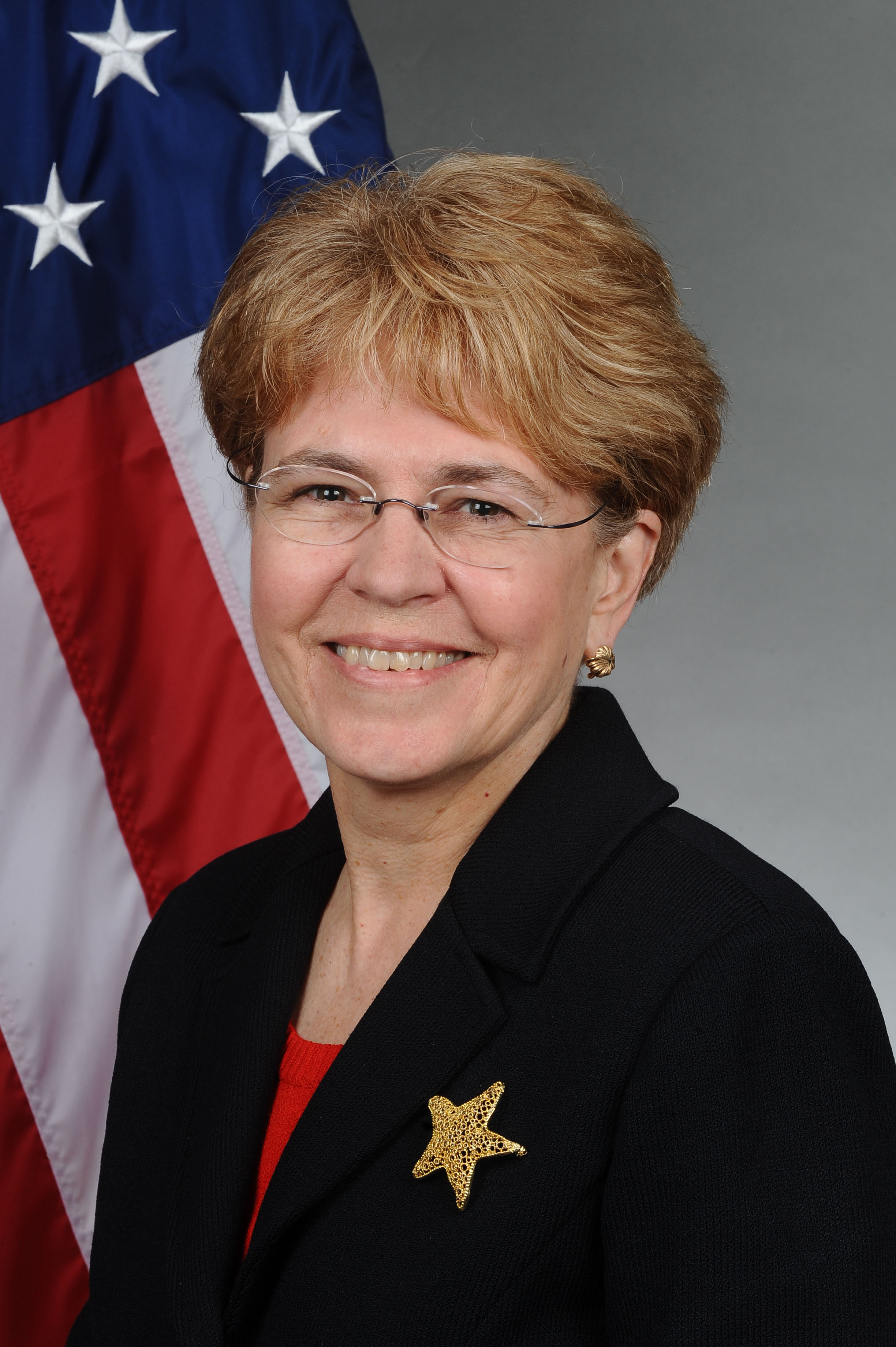 A photo of Jane Lubchenco, Administrator of the National Oceanic and Atmospheric Administration (NOAA) (2009-)